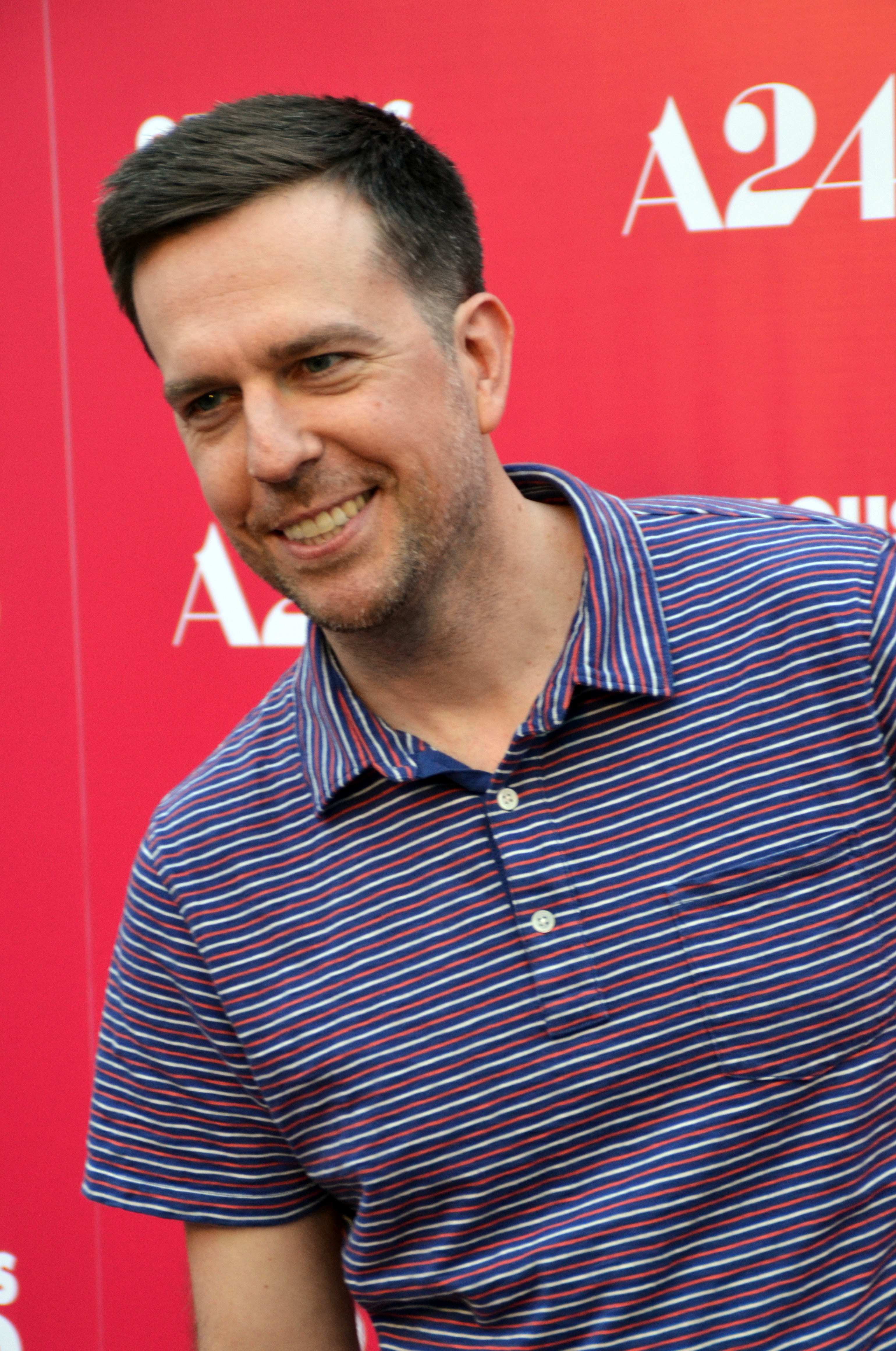 Actor Ed Helms at the premiere of "Obvious Child" at the ArcLight Hollywood theater on June 5, 2014